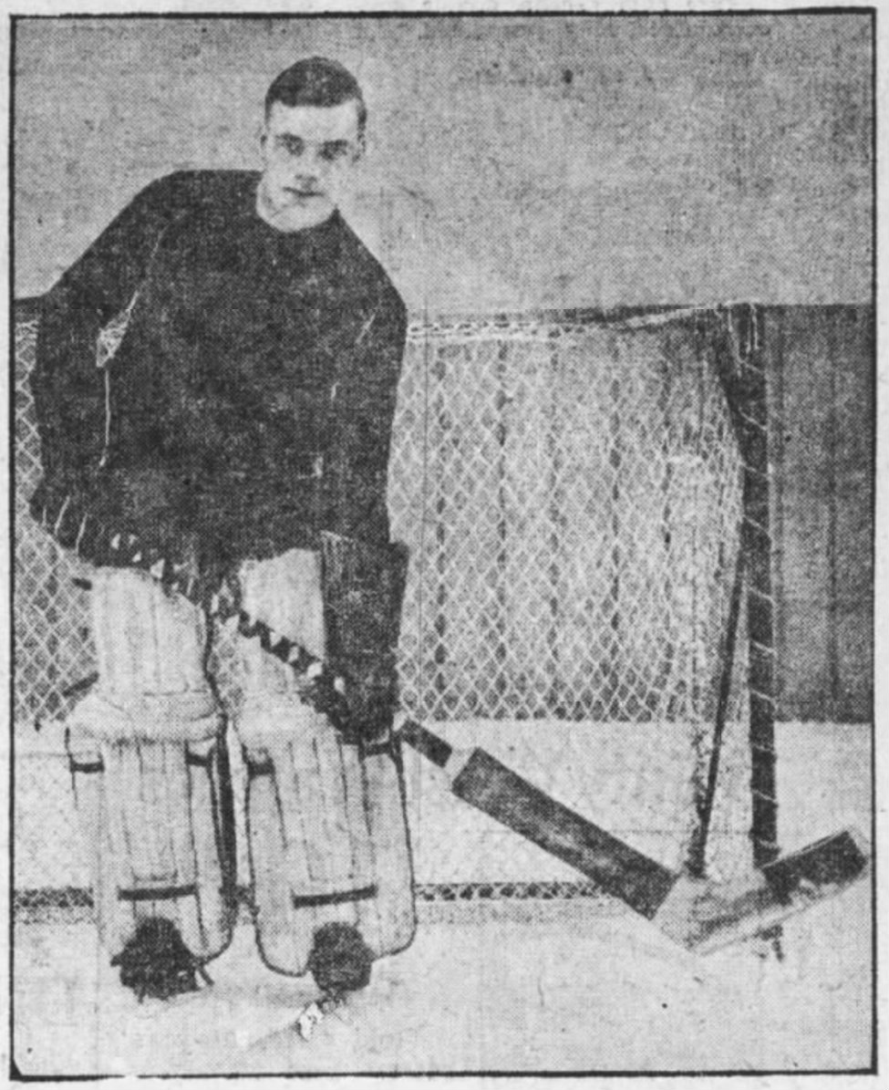 Ice hockey goaltender Herb Rheaume of the Boston Westminsters of the USAHA in 1921–22